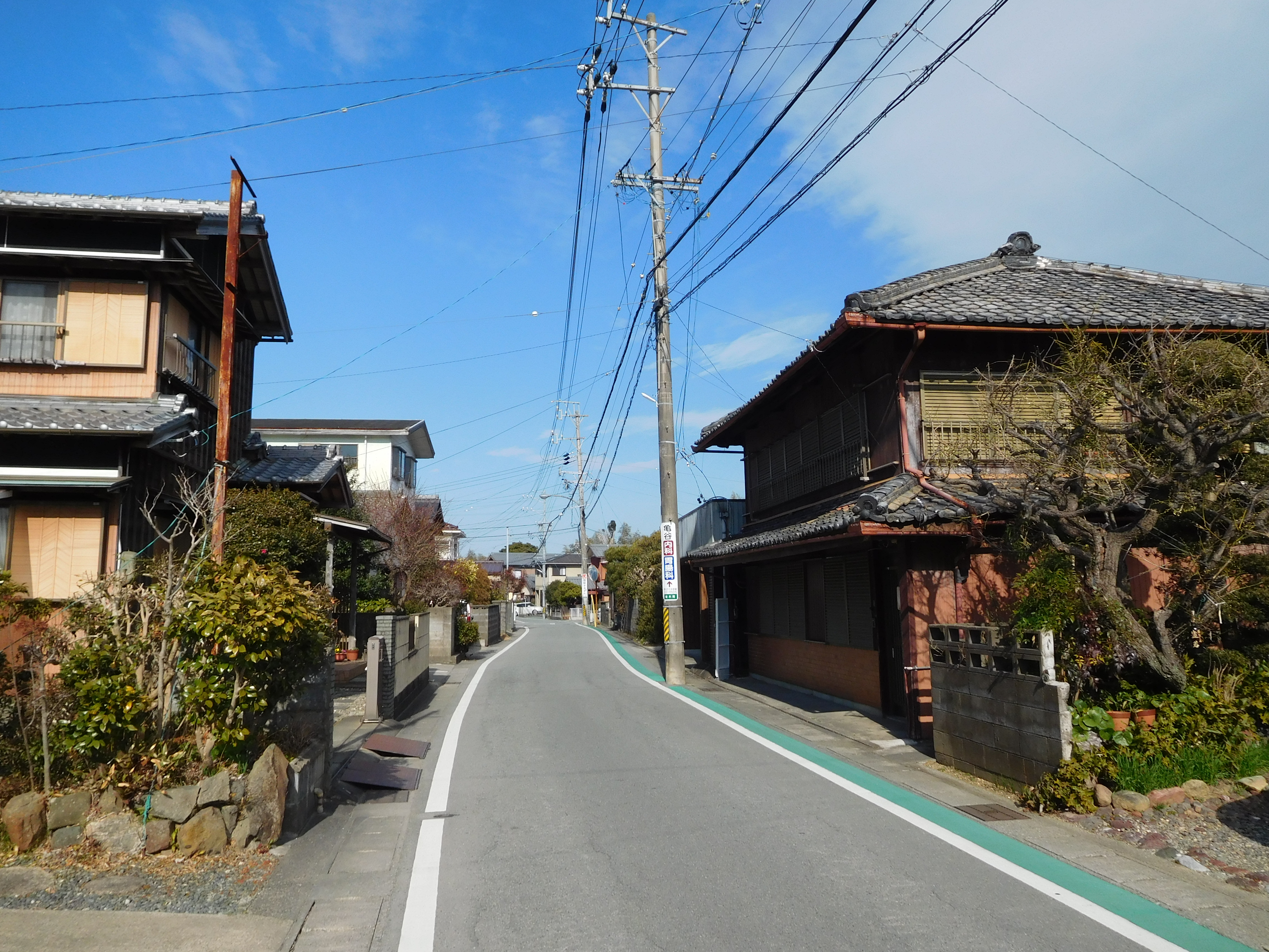 This is Furuichi street in Sakuragi-cho, Ise, Mie, Japan. It played a role the way to Ise Jingu.